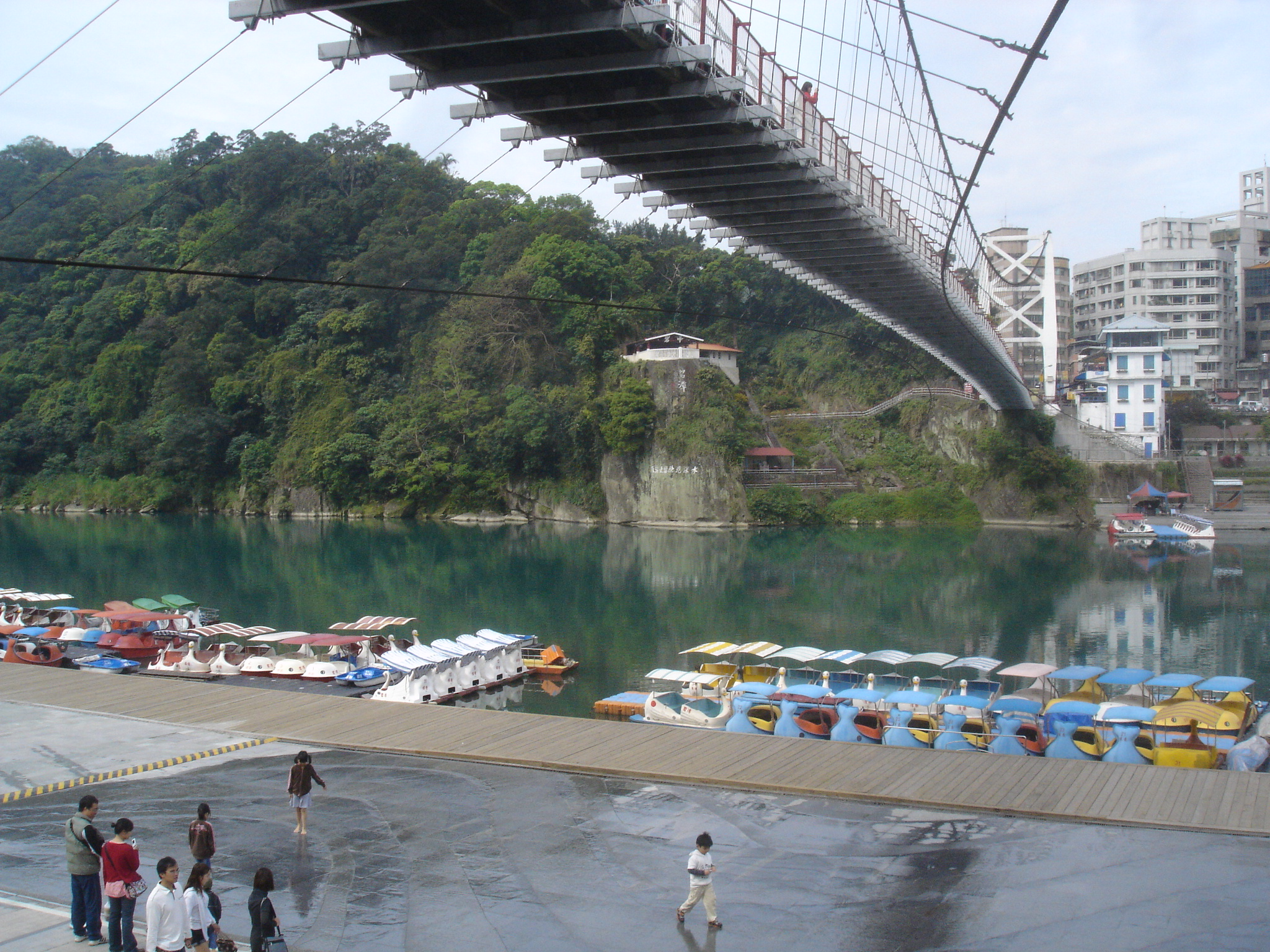 Bitan lake in Xindian, Taiwan